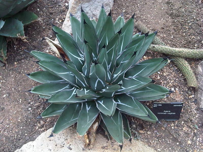 Queen Victoria's agave (Agave victoriae-reginae) at Kew Gardens, England.